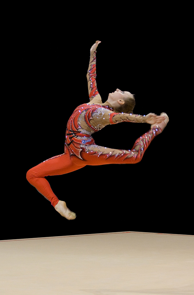 VII Final World Cup in Benidorm (SPAIN)